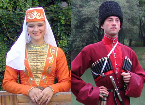 cherkess7 Circassians in Costumes